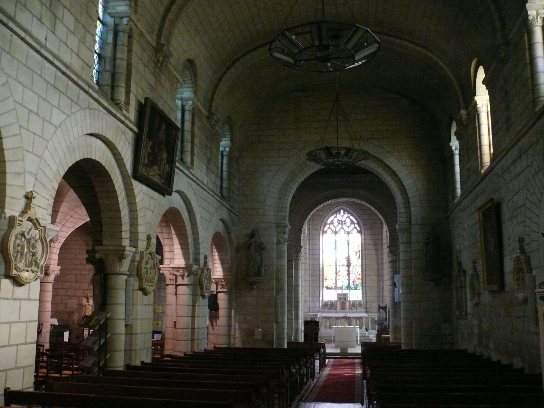 Saint-Gilles' church of LÎle-Bouchard (Indre-et-Loire, Centre, France).